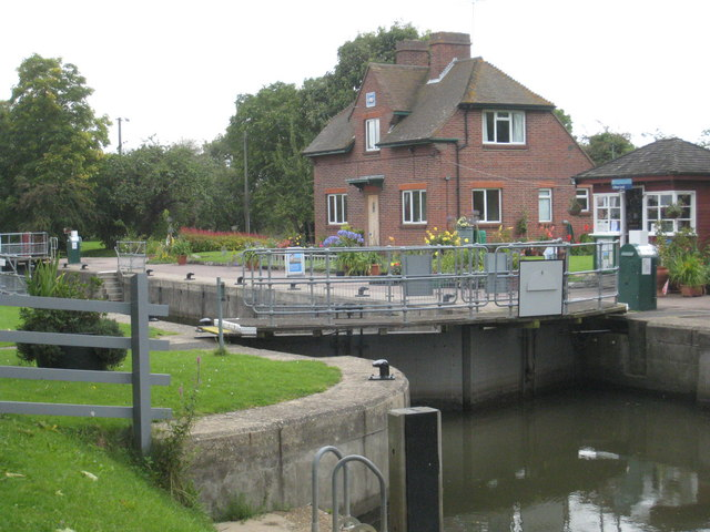 Clifton Lock